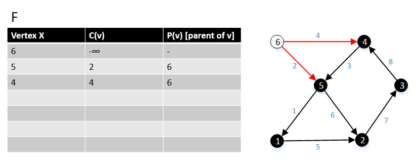 MBSA-GT example 1